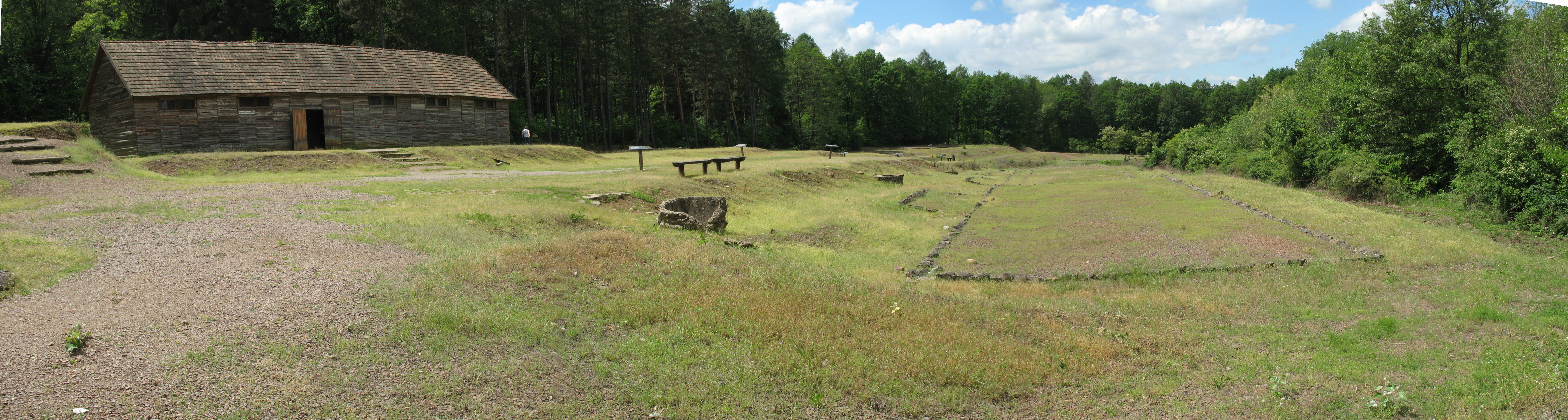 A view of the area where a labour camp in Recsk, Hungary, operated in 1950-52